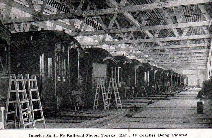 Photo postcard of the Santa Fe railroad's Topeka, Kansas shop where railroad cars are being painted.